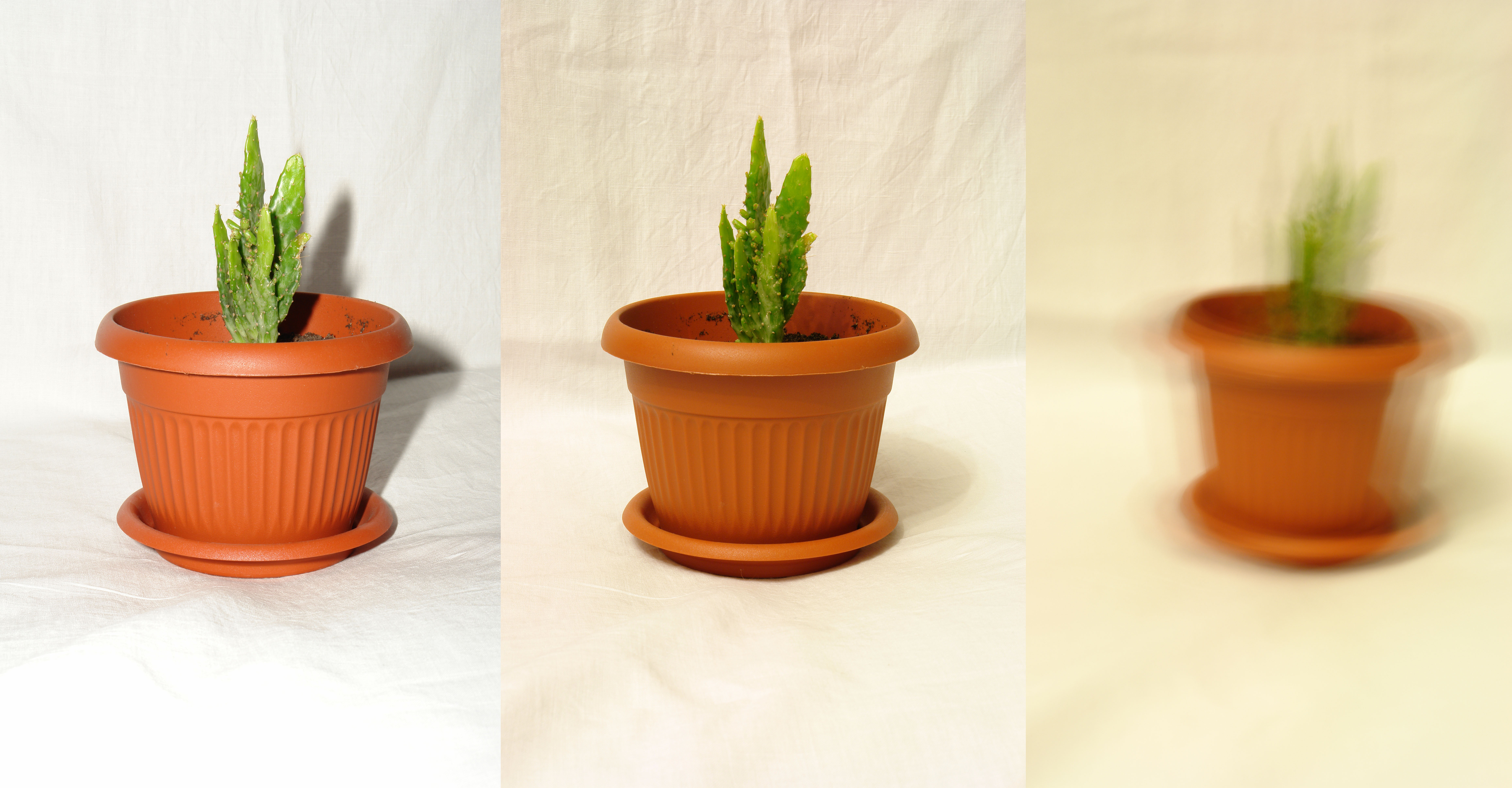 Photographs: L2R, using flash, from a tripod, hand held